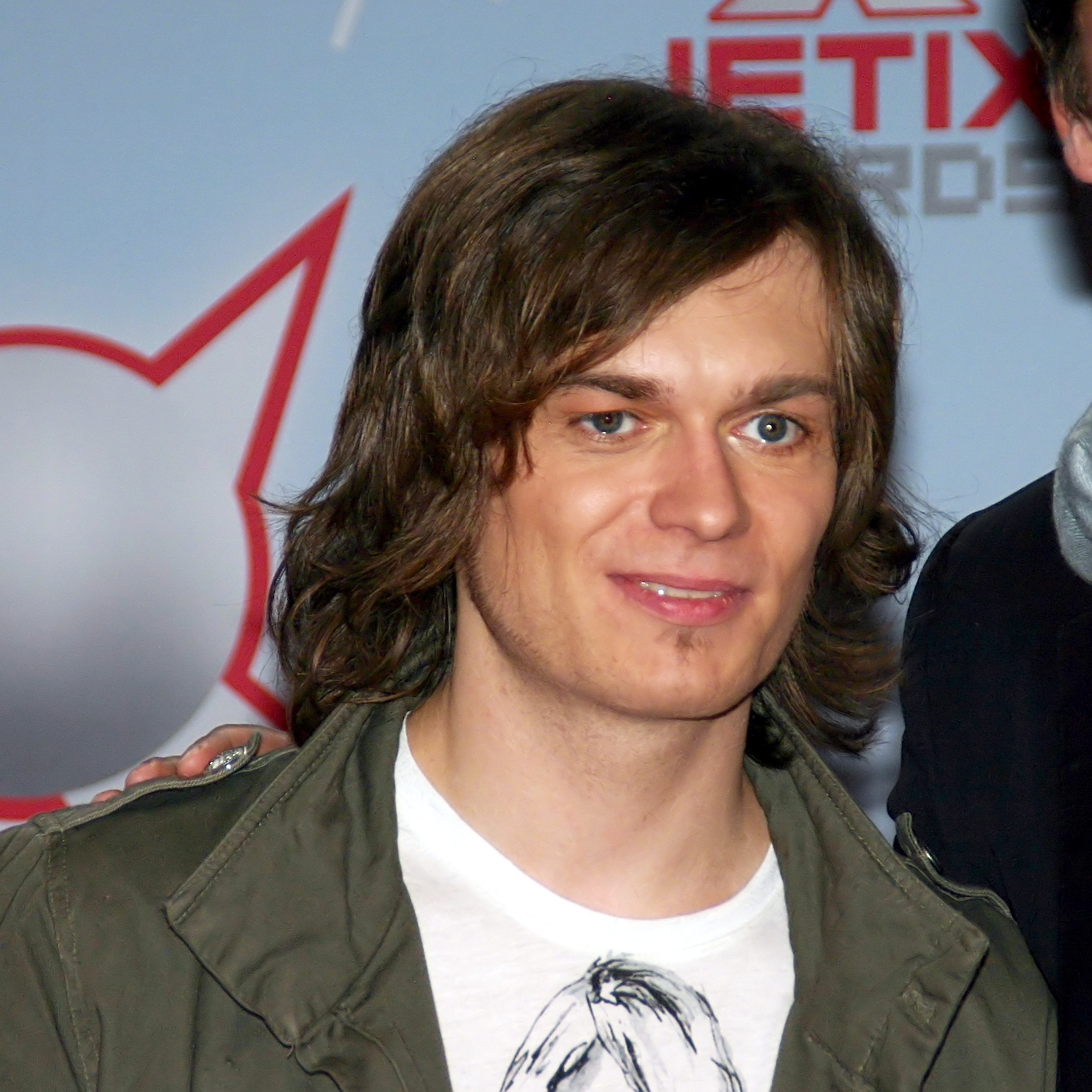 Thomas Godoij during the conferment of the JETIX Award at the youth fair "YOU", Berlin